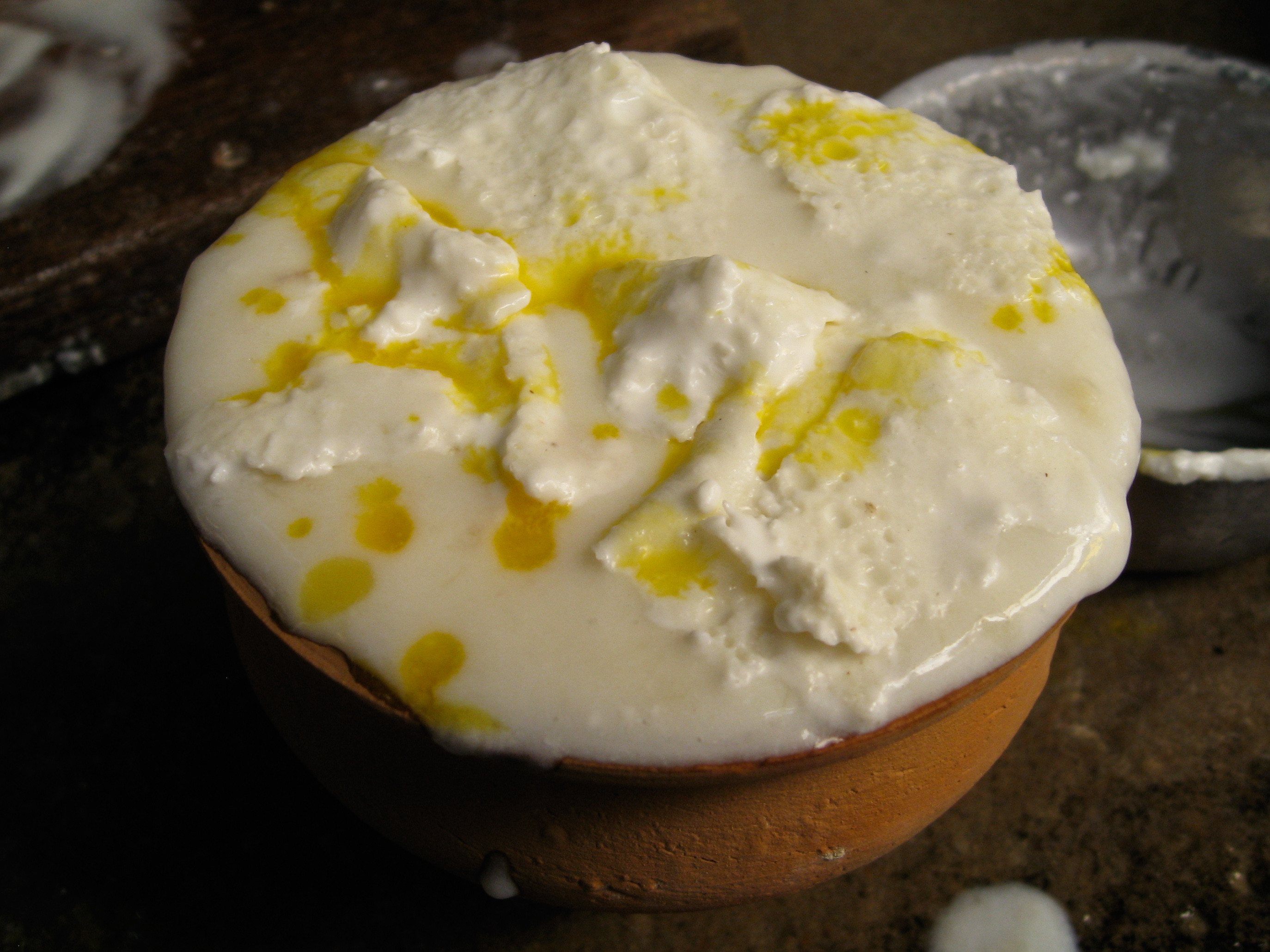 This was the best lassi I've had in my life.